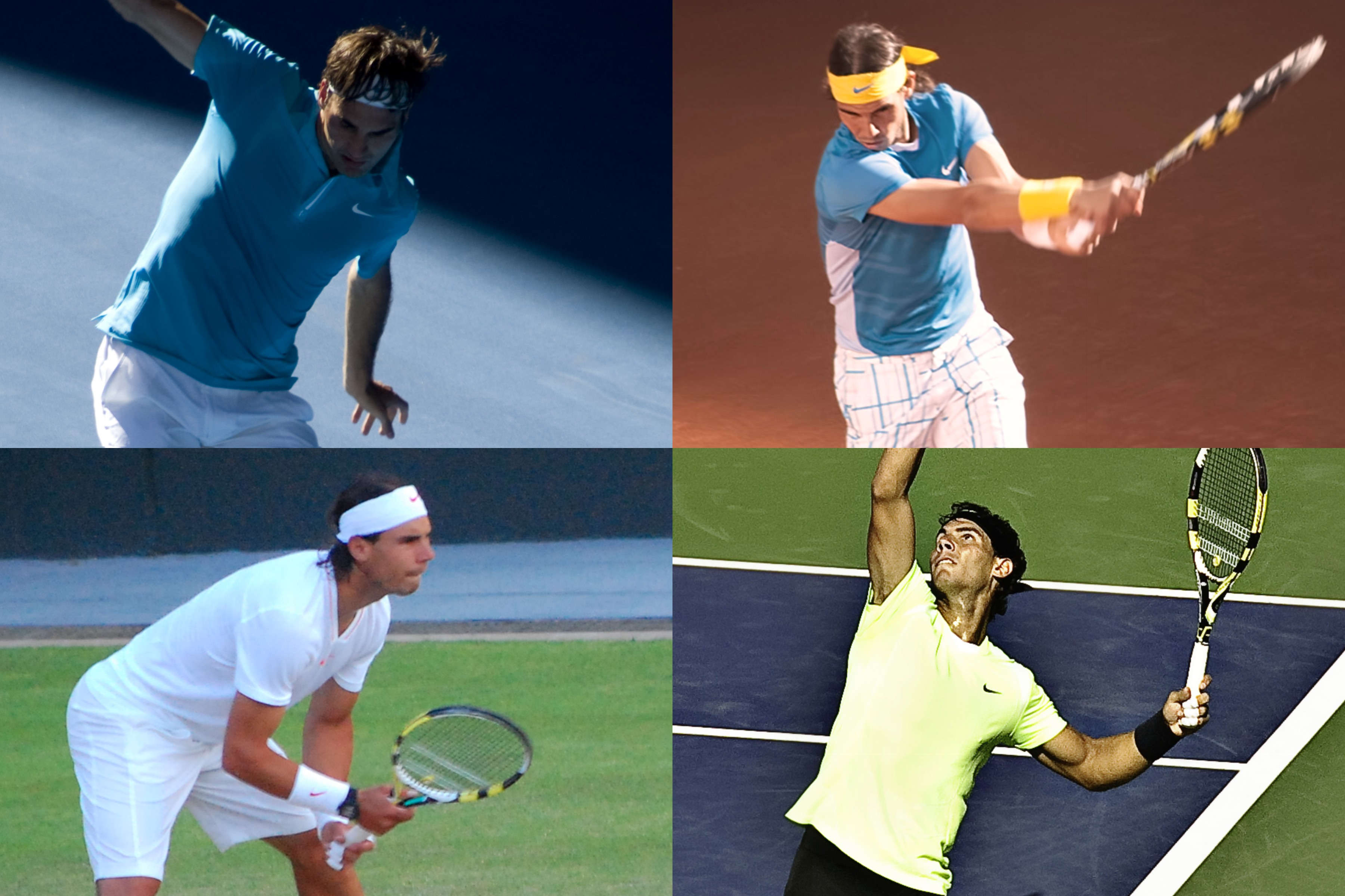 merged from four Wikipedia Commons images originally posted on Flickr